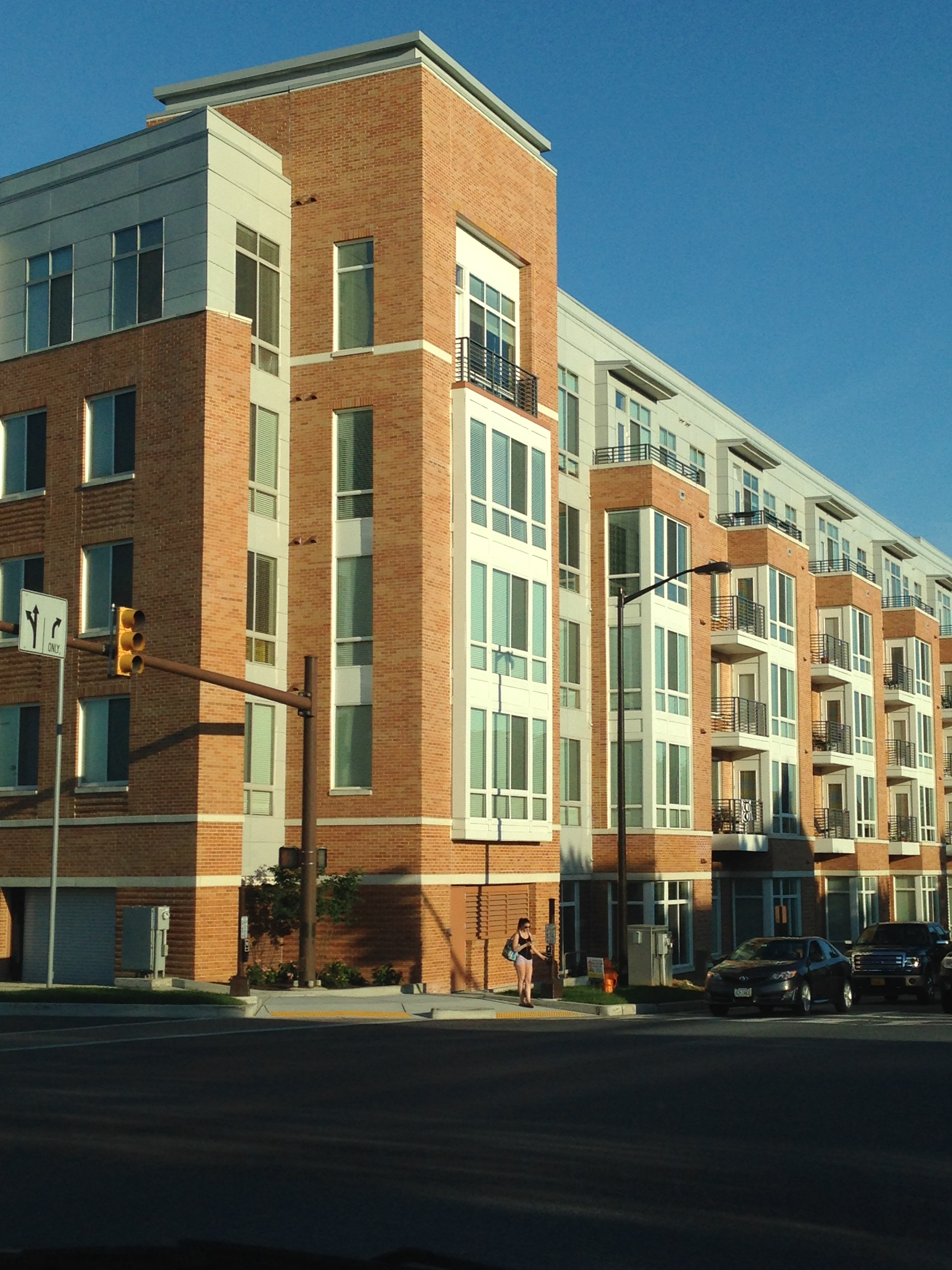 View of the Metropolitan Building at the corner of Broken Land Parkway and Town Center Avenue